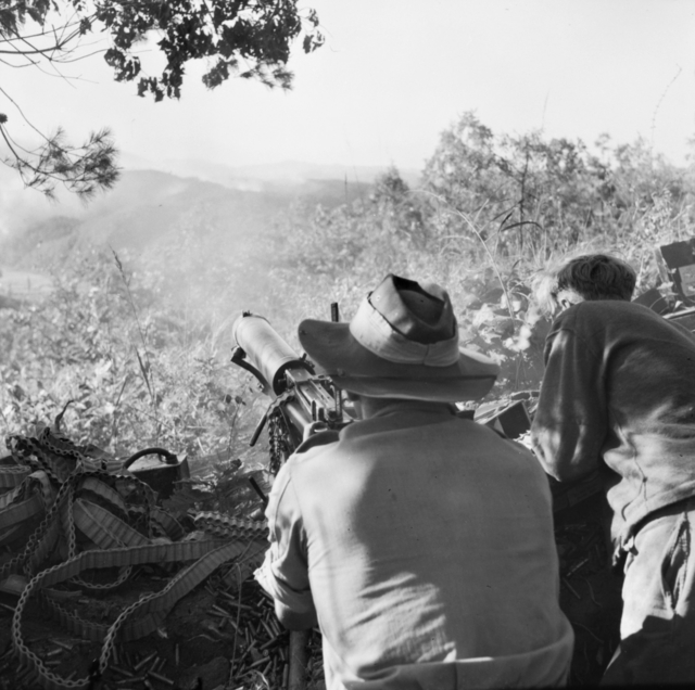 AWM caption: Korea. October 1951. Unidentified Australian medium machine gunners stand by ready to give supporting fire to mates of C Company, the 3rd Battalion, The Royal Australian Regiment (3RAR), as they move up to attack a hill in the smoke of an earlier New Zealand artillery barrage. Note the piles of expended .303 cartridges and used ammunition belts below the gun.